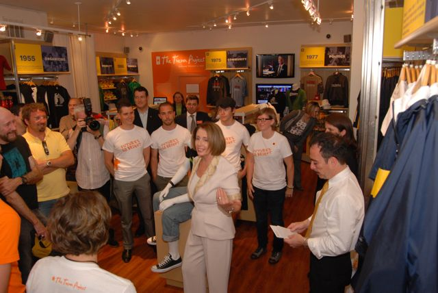 June 20, 2011 ~ To mark the 41st celebration of San Francisco Pride, Leader Pelosi visited the Trevor Project’s Harvey Milk Call Center.